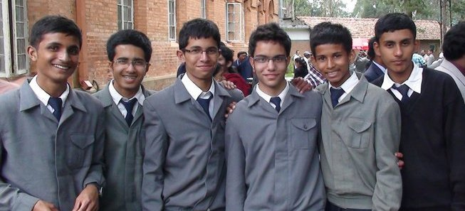 Founders 2011